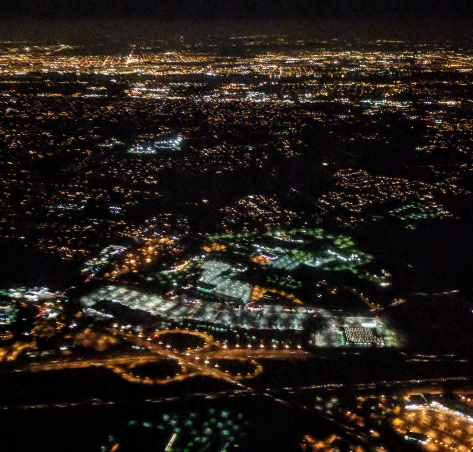 Night aerial view of the 3-leaf clover exchange at I-295 and NJ-38, with Philadelphia in the background and the New Jersey turnpike in the foreground.